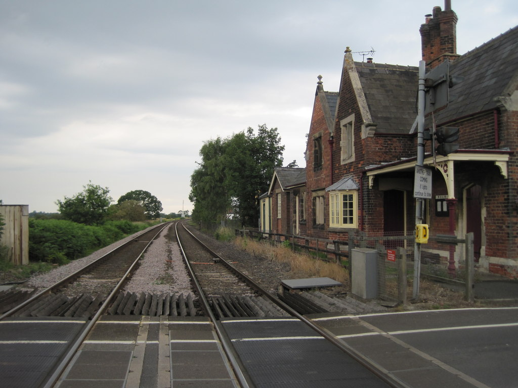 Moortown railway station (site), LincolnshireOpened in 1848 by the Manchester Sheffield and Lincolnshire Railway on the line from Lincoln to Cleethorpes, this station closed in 1965. View north west towards North Kelsey and Cleethorpes.